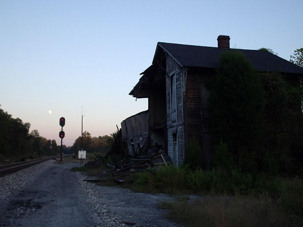 "The sun has set for Providence Forge railroad depot as it is falling apart."